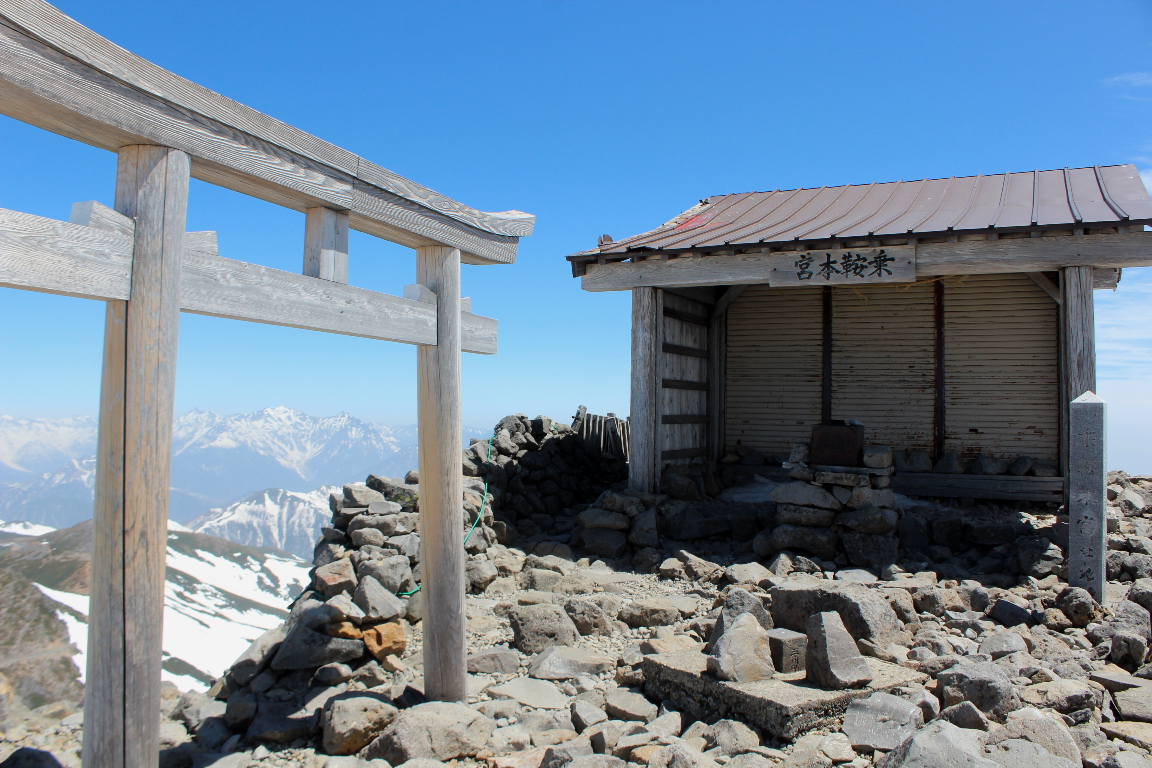 Torii, Triangulation station and Shinto shrine (Norikurahongu Okumiya) seen from Kengamine, top of Mount Norikura, in Hida Mountains, Nagano pref. and Gifu pref., Japan